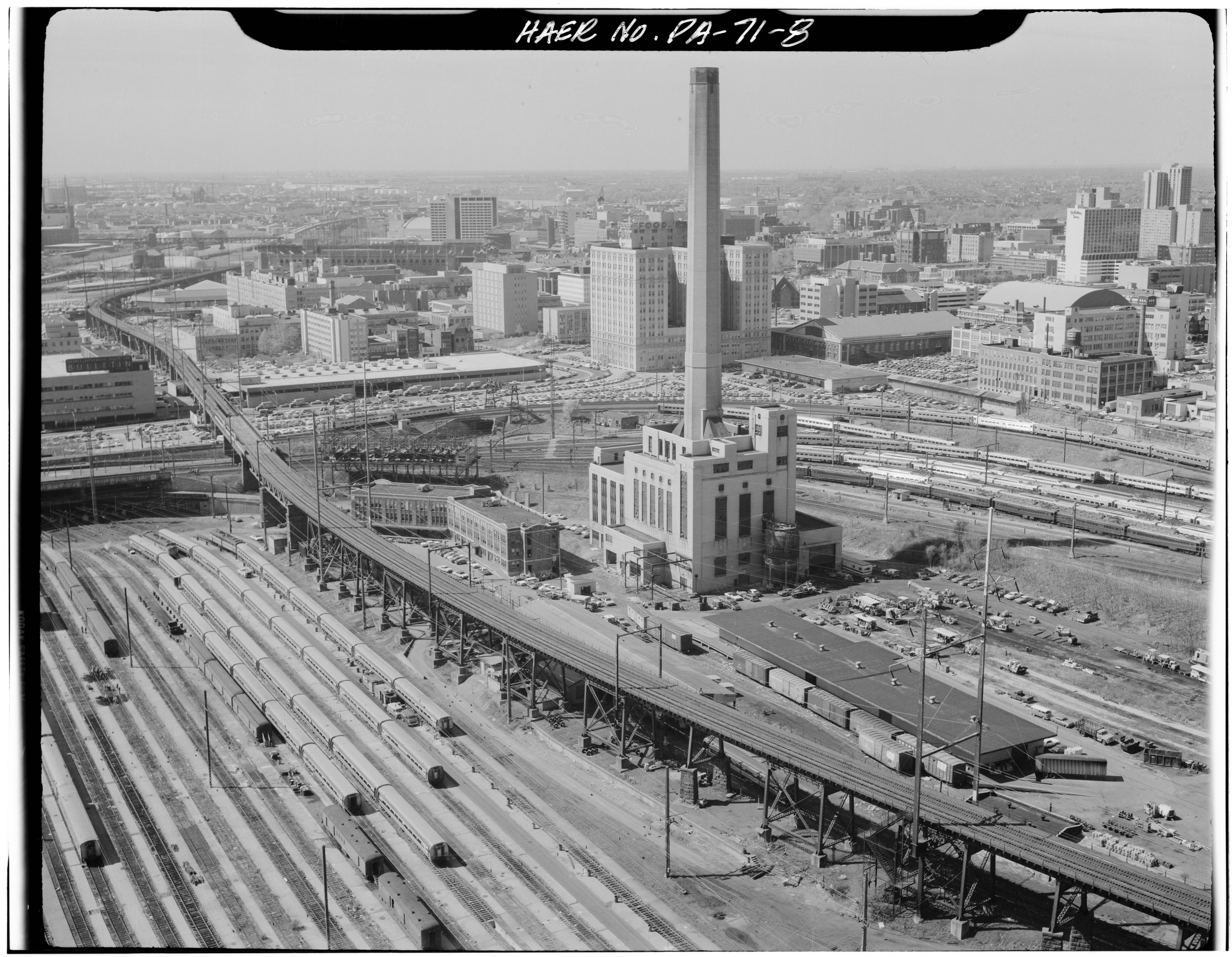 View of the southern and central parts of theWest Philadelphia Elevated in Philadelphia, Pennsylvania. The viaduct parallels the Northeast Corridor in the 30th Street Station area which itself is located outside the left edge of the picture.